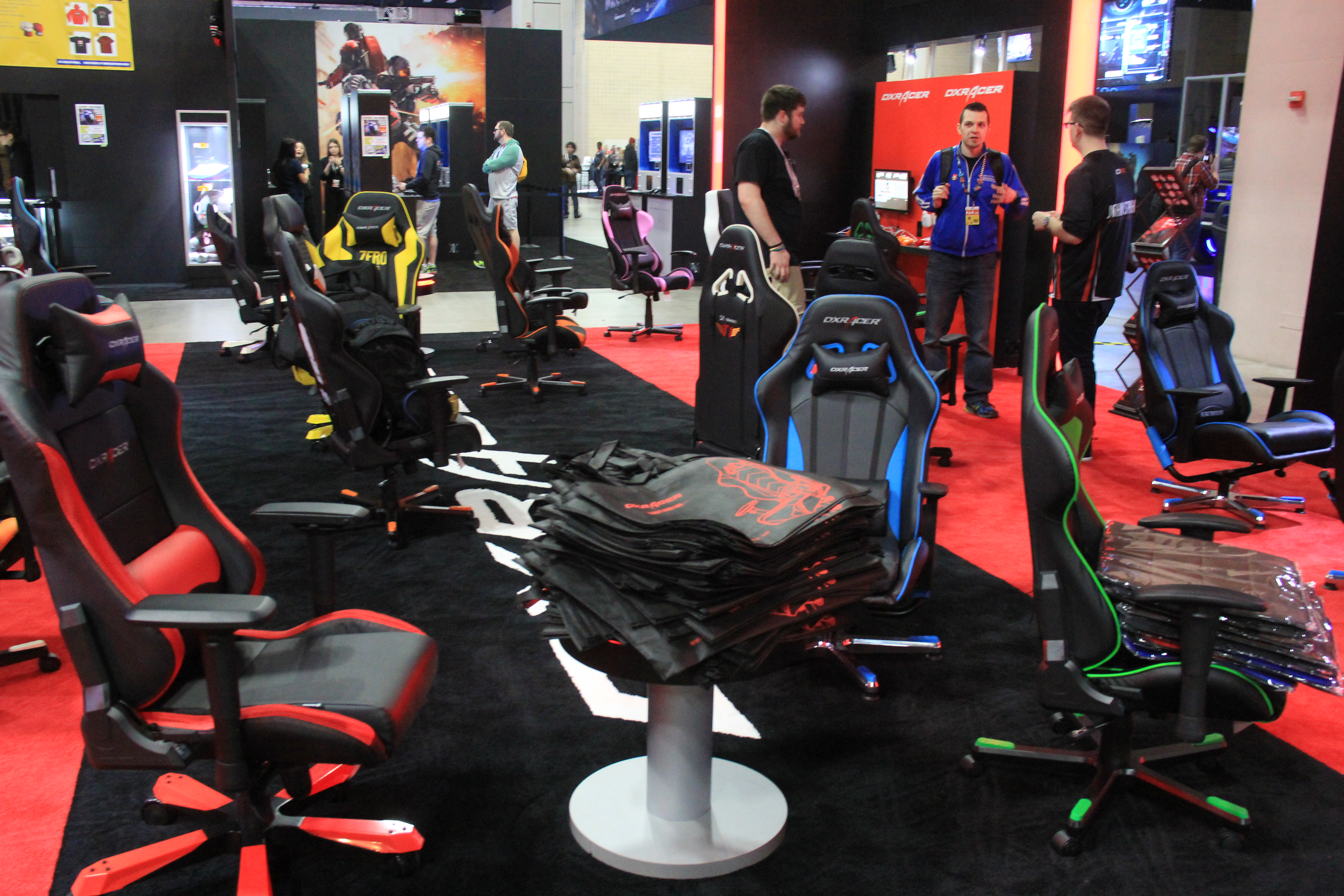 IMG_5429 Taken at PAX South 2016.